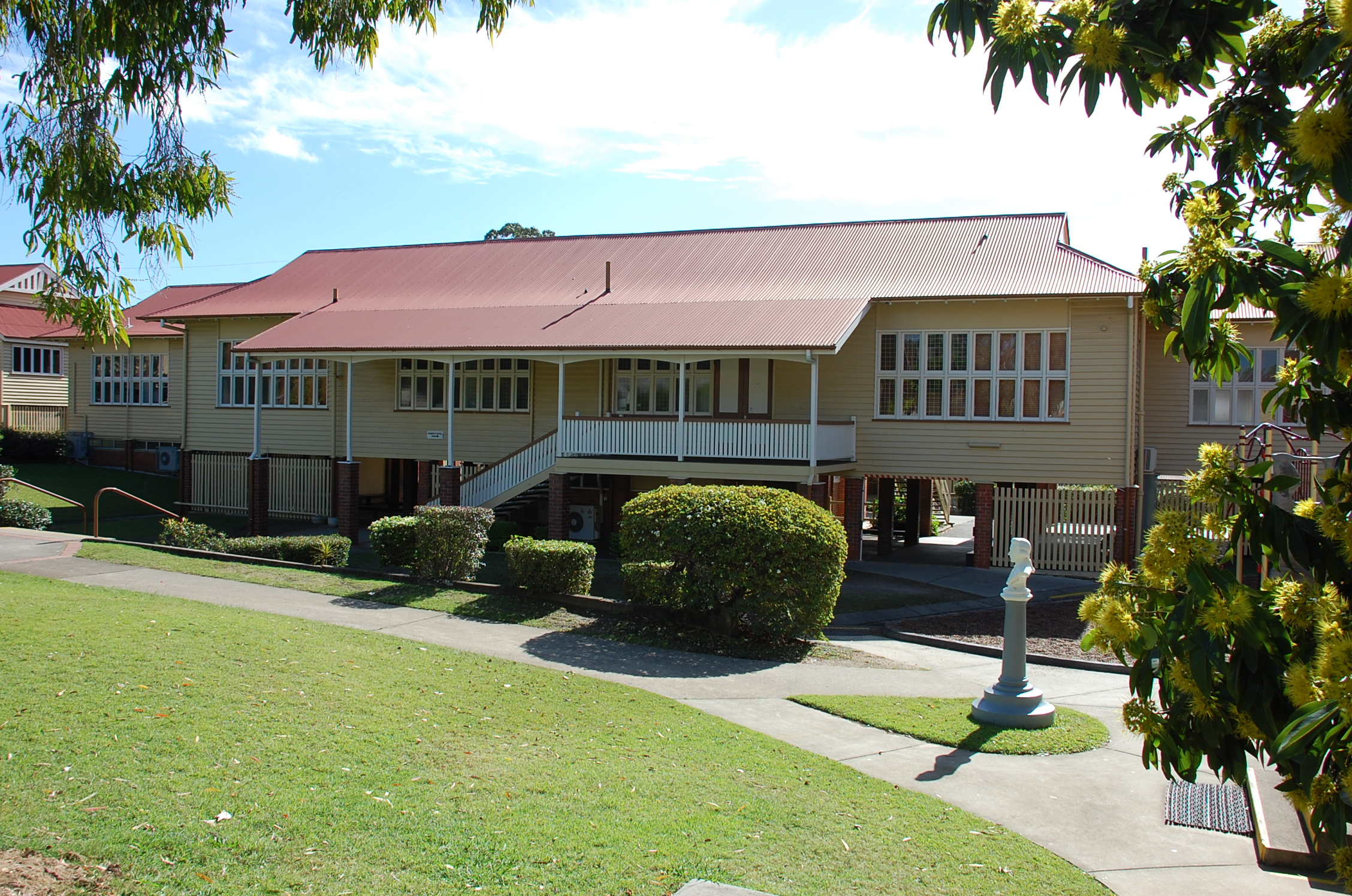 Administration block at Wilston State School in Primrose Street, Grange, in Queensland, in Australia.